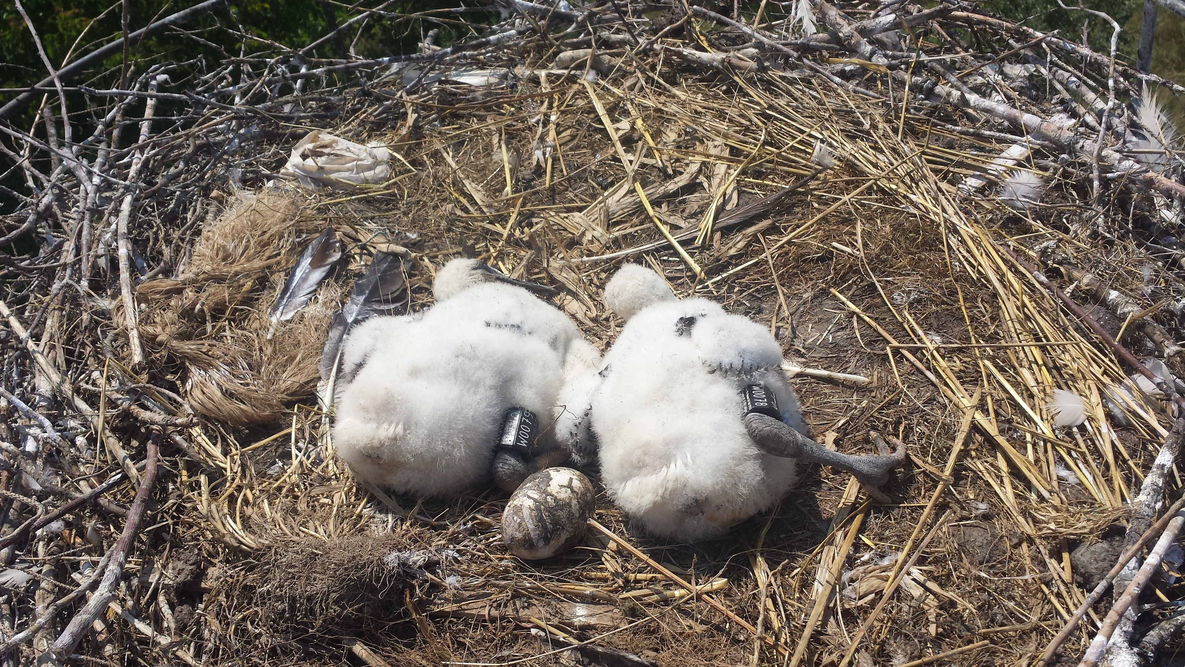 Ciconia ciconia